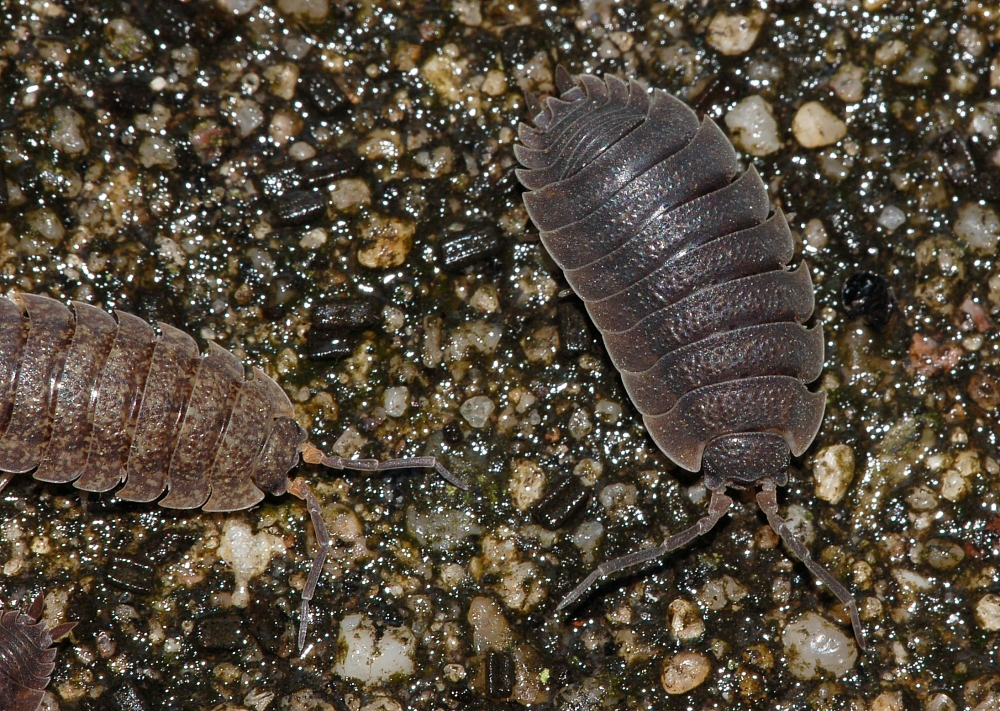 Porcellio scaber, Nied, Frankfurt/Main, Germany